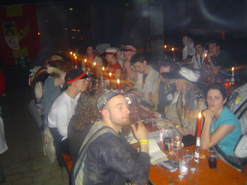 Attempt at the world record for 50 hours Cantus (students singing and drinking beer), BSK, Brussels.